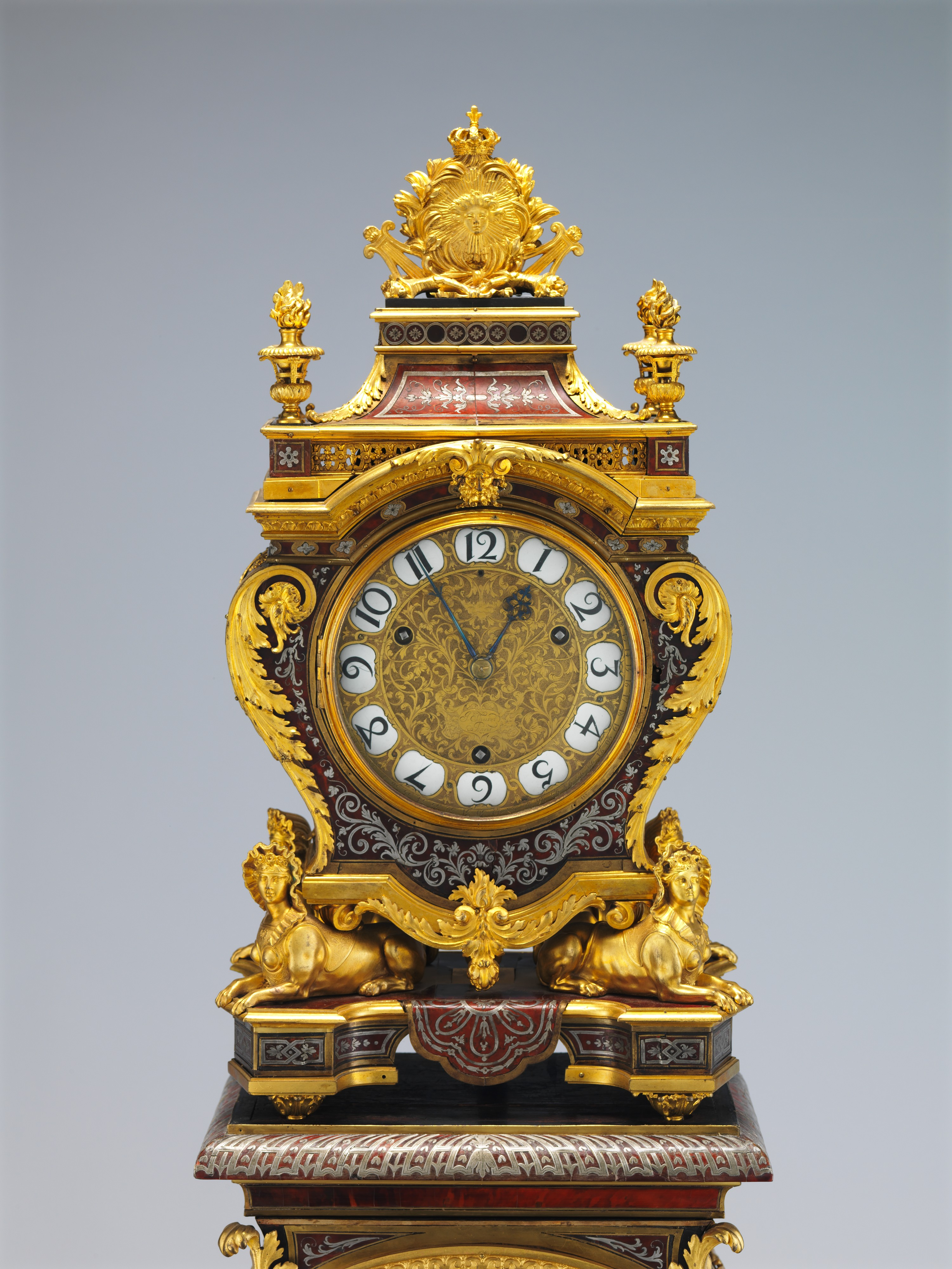 French, Paris; Clock with pedestal; Horology